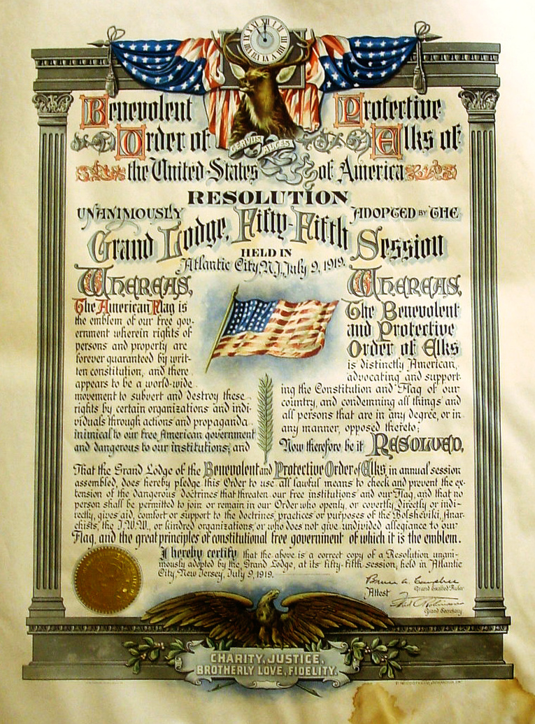 Signed resolution of the 1919 Benevolent and Protective Order of Elks convention declaring itself to be patriotic and barring the membership of anarchists, socialists and members of the Industrial Workers of the World.